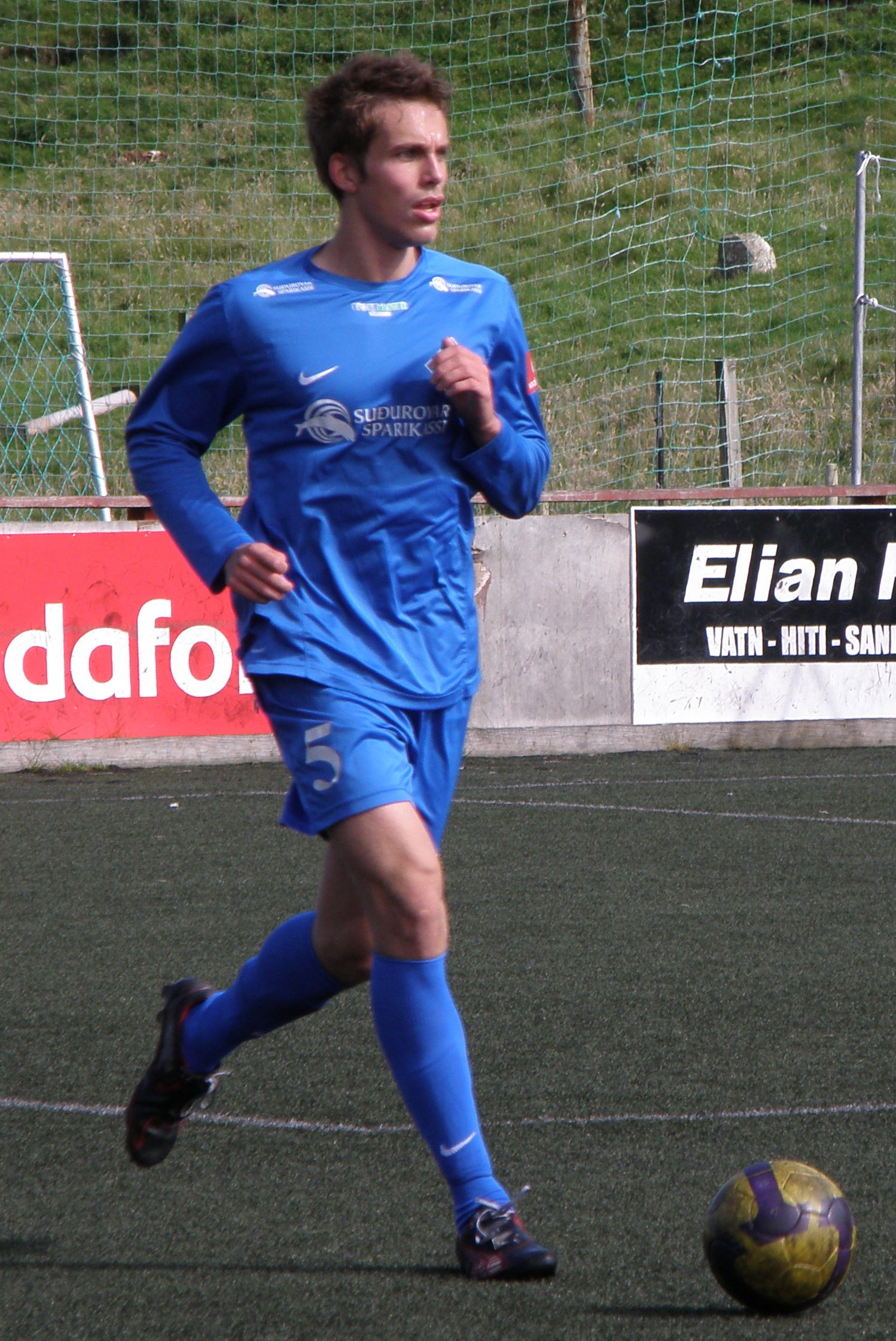 Heini Vatnsdal is a Faroese football player. He currently plays for FC Suðuroy. He is one of the squad of the U21 Faroe Islands national team, but he has not played any match for the team yet (as of 25 August 2010). Heini has earlier played for U15 Faroe Islands, where he scored 4 goals, and for U17 Faroe Islands, where he scored 1 goal. This photo was taken at the Vodafone (Faroese Premier League) match between FC Suðuroy and B36 Tórshavn, which FC Suðuroy won 2-1. The match was played on Eiðinum football field in Vágur, Suðuroy. Føroyskt: Heini Vatnsdal er føroyskur fótbóltsleikari. Hann spælir við FC Suðuroy og er eisini úttikin til U21 ungdómslandsliðið hjá Føroyum. Hann hevur fyrr spælt fleiri dystir fyri Føroyar á U15, har hann skoraði 4 mál og U17, har hann skoraði eitt mál. Heini spælir sum bakkur á FC Suðuroy liðnum, hann hevur tó eisini roynt seg sum áleypara ella miðvalla leikara, serliga tá hann spældi á U15 og U17 landsliðunum. Henda myndin varð tikin 22. august 2010, tá FC Suðuroy vann 2-1 móti B36 vesturi á Eiðinum í Vági.